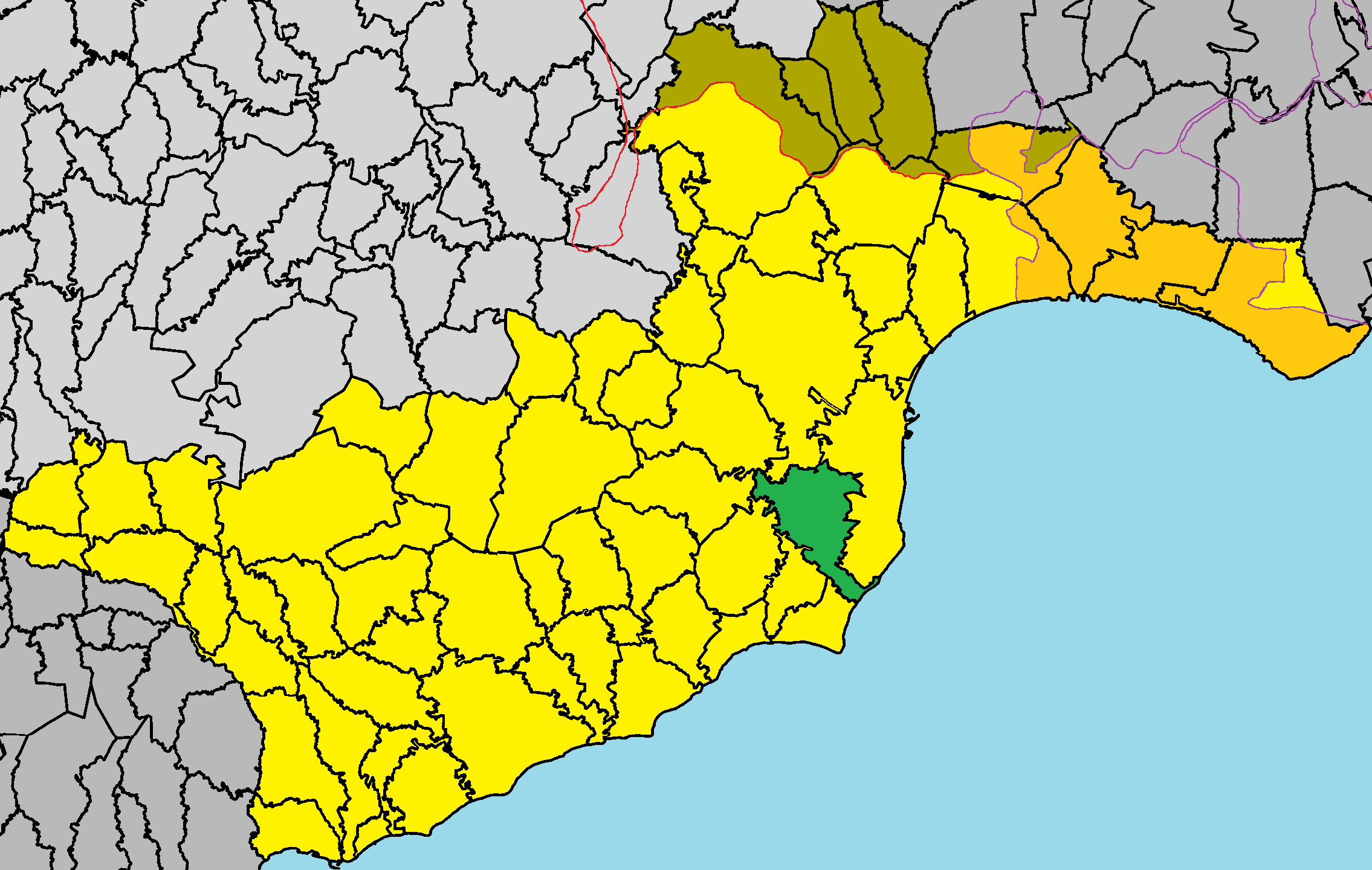 Dromolaxia-Meneou Municipality in Larnaca District.